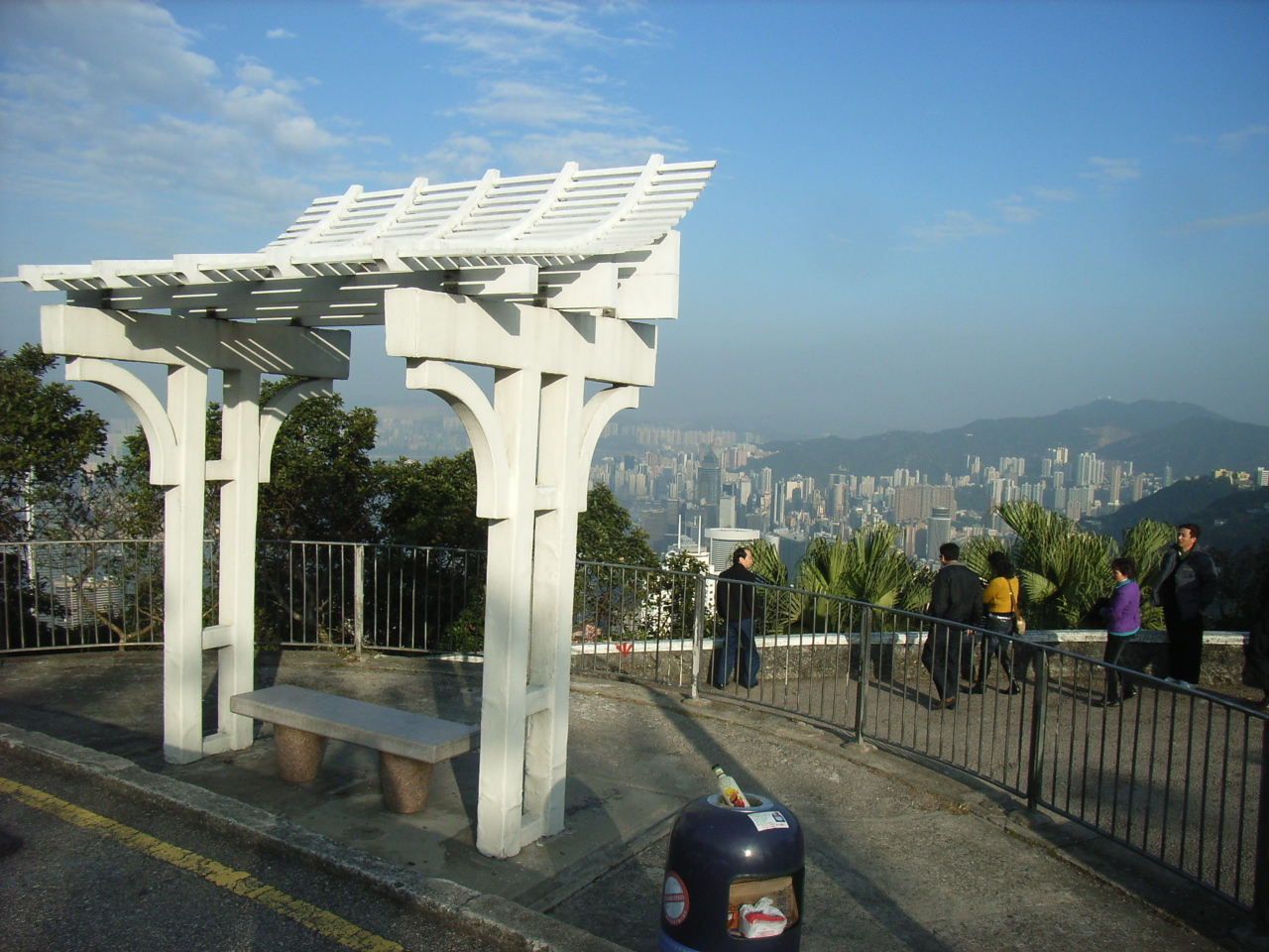 Viewing pavilion along Mount Austin Road, Victoria Peak, Hong Kong. It was built before 1920 (see p.18). Photographer and author is ParkerStarS.